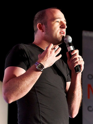 This a cropped version of Jonobacon.jpg image.